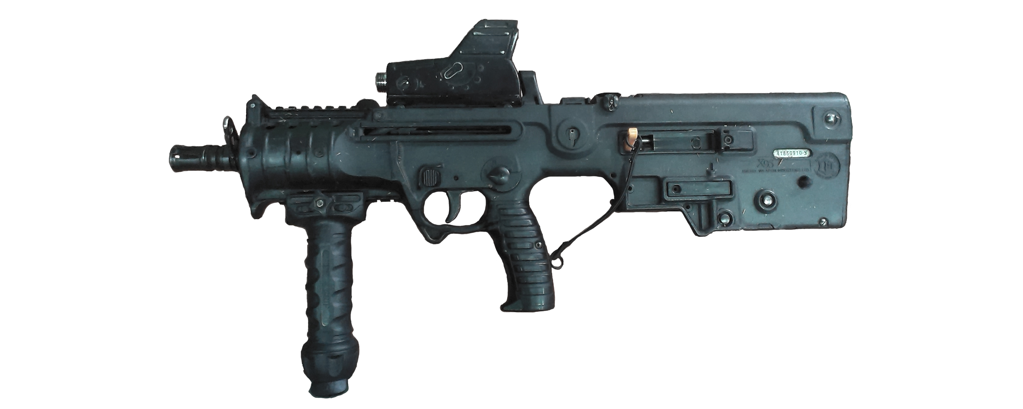 Israel Defense Forces Micro-Tavor X95